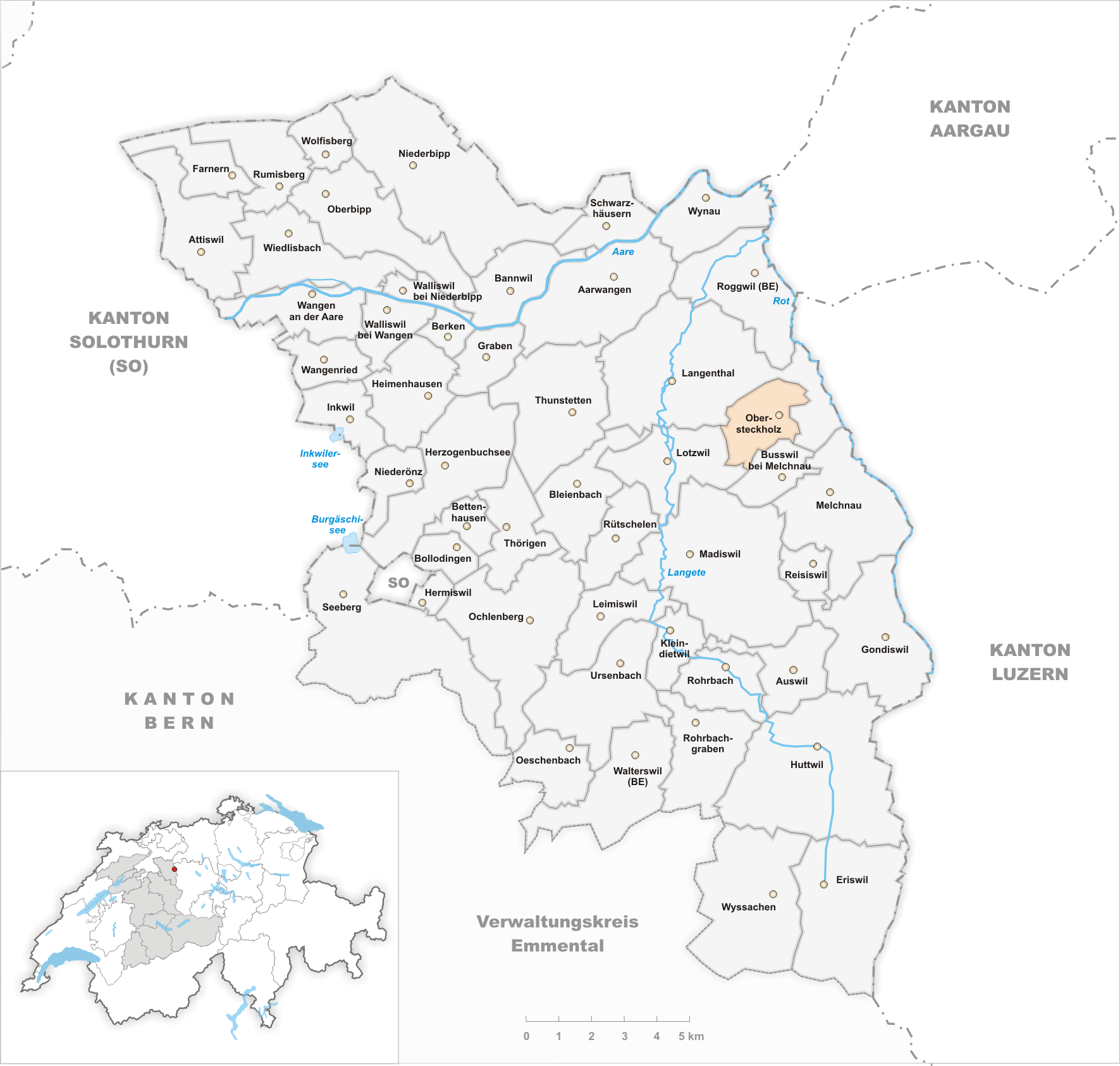 Municipality Obersteckholz